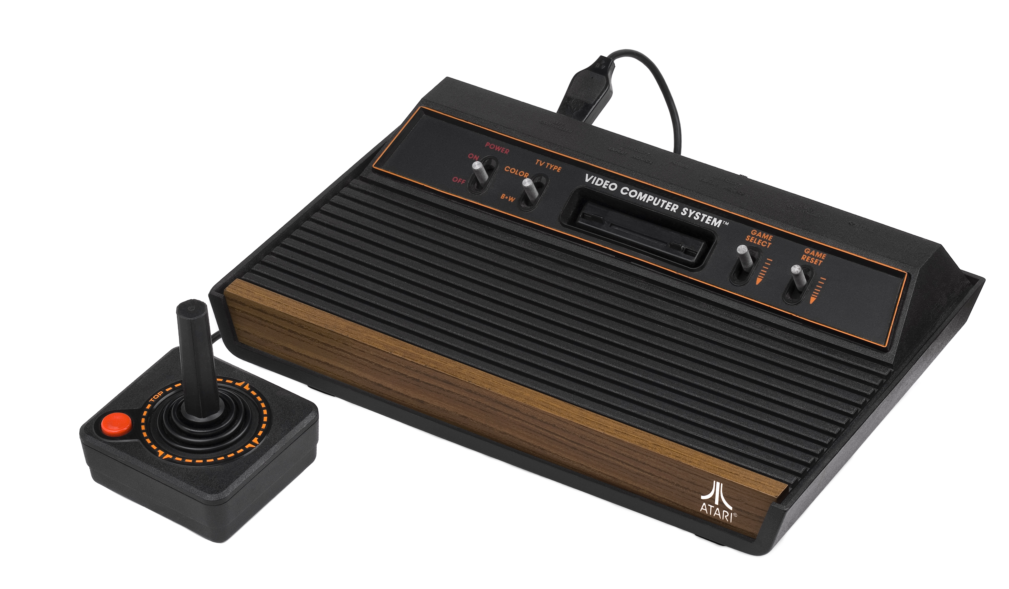 An Atari 2600 four-switch "wood veneer" version, dating from 1980-1982. Shown with standard joystick.